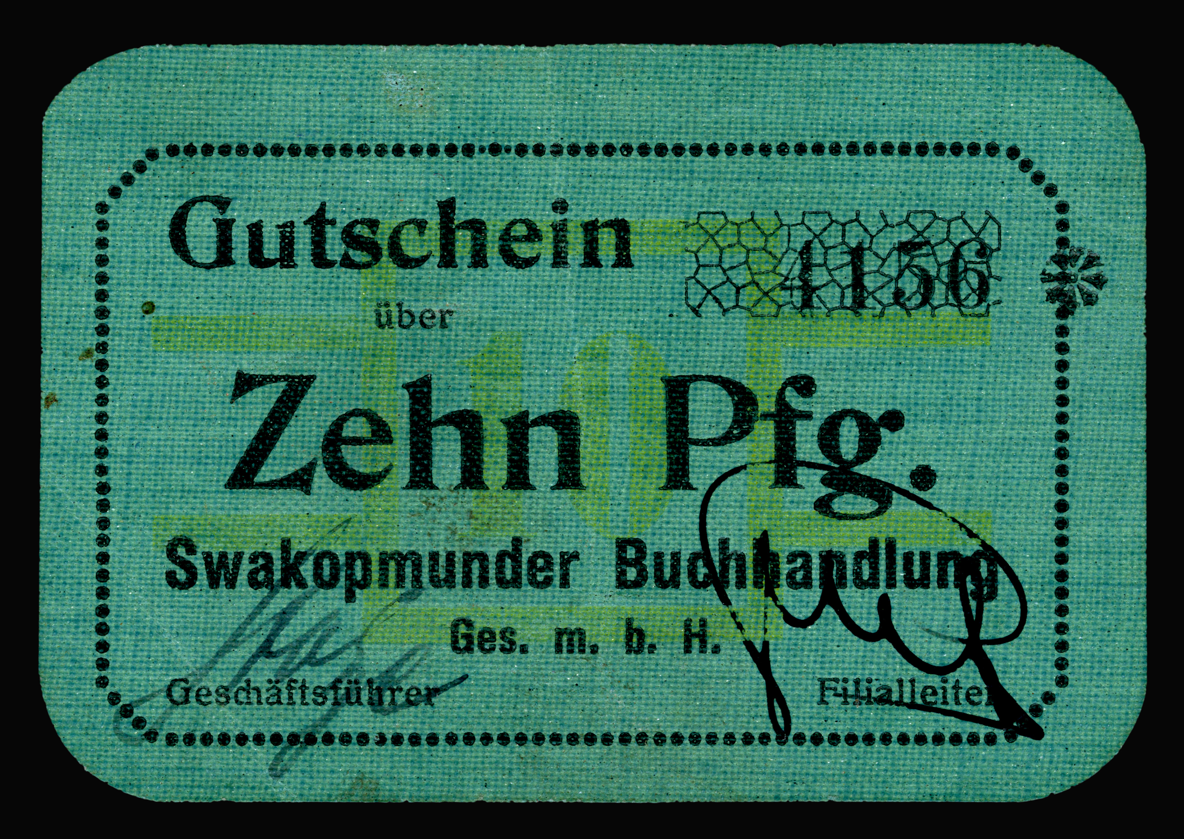 Swakopmunder Buchhandlung, 10 Pfennig (1916).South-West Africa (currently Namibia) was the place of printing and issue. As a result of regional war, South-West Africa was a colony of South Africa at the time of issue. Hence the two licenses below.